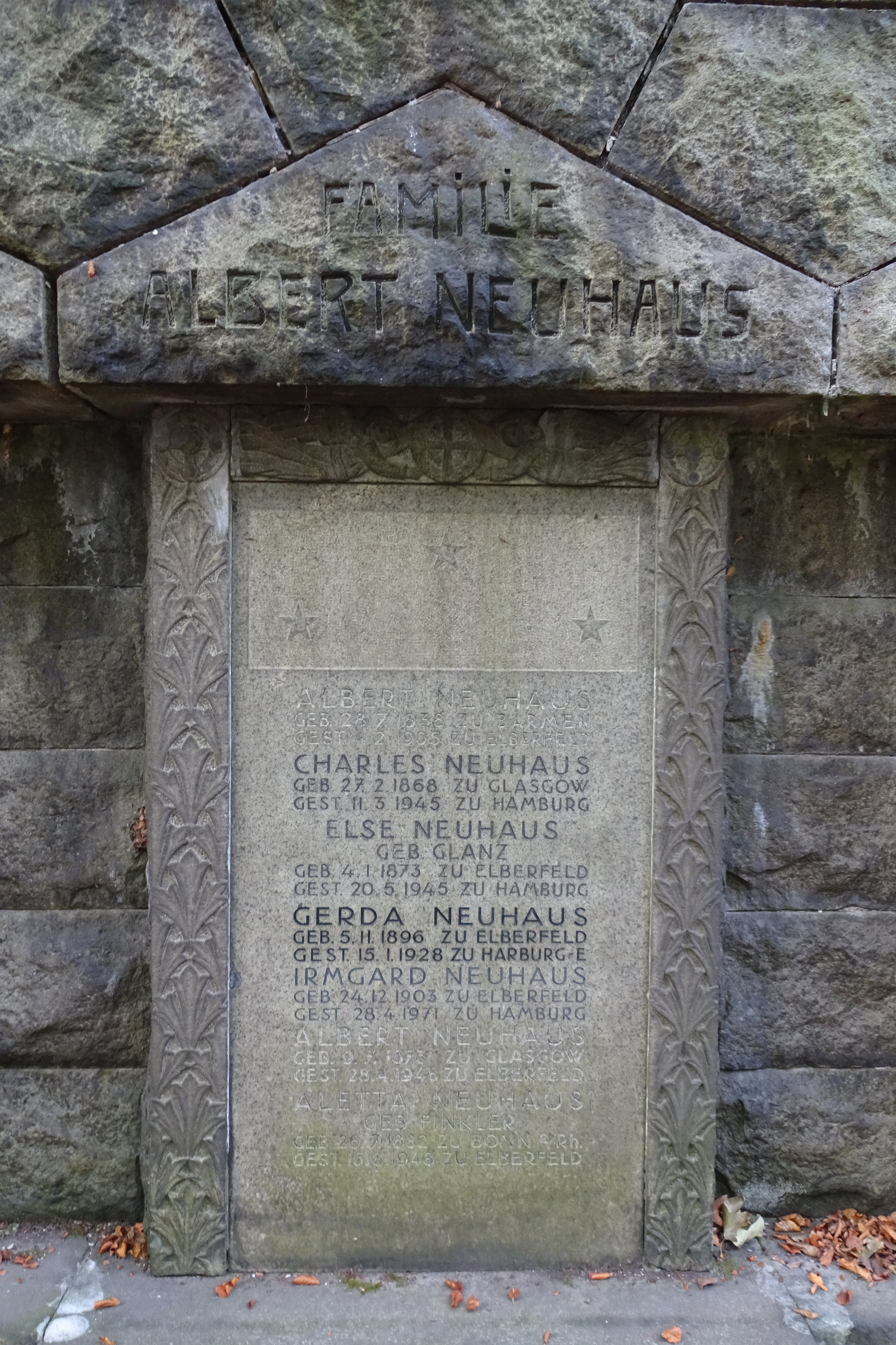 Grave of German politician Albert Neuhaus (DNVP) in Reformierter Friedhof Hochstraße in Wuppertal